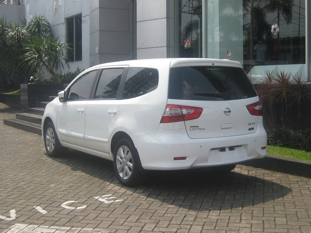 2014 Nissan Grand Livina 1.5 XV (L11), photographed in West Jakarta, Indonesia.